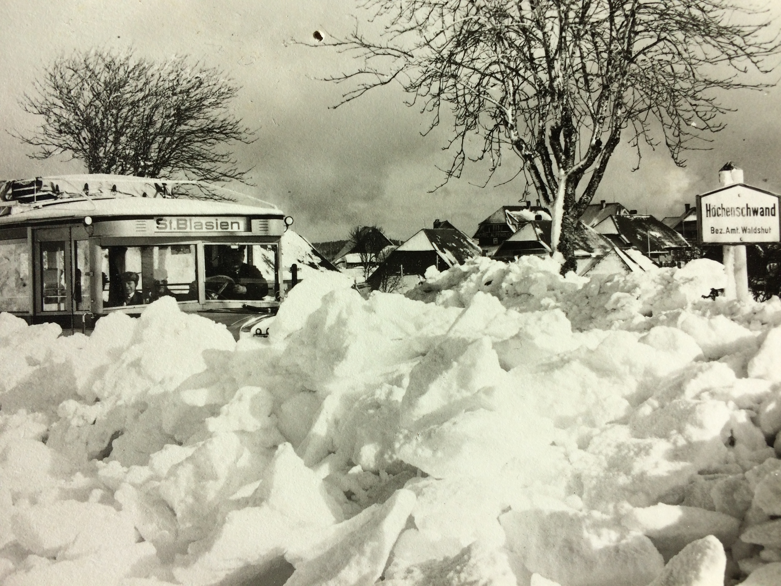 Postbus der Postwagengesellschaft St. Blassen